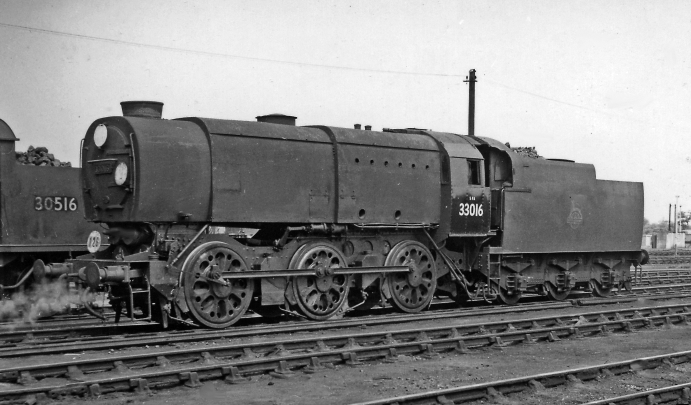 SR Q1 0-6-0 at Feltham Locomotive Depot. No. 33016 is one of the strange-looking but powerful Q1 class 0-6-0s introduced for wartime freight traffic by Bulleid in 1942, being built as No. C16 in 11/42 and lasting until 8/63.